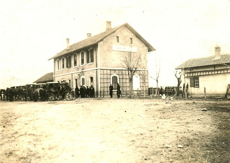 Karaferia Train Station